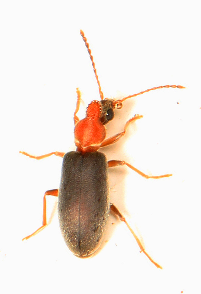 Ant-like Flower Beetle - Notoxus murinipennis, Woodbridge, Virginia.